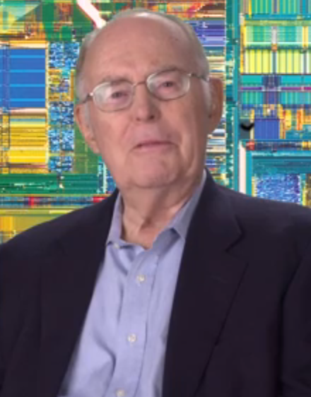 Image of computer scientist and businessman Gordon Moore. The image is a screenshot from the Scientists You Must Know video, created by the Chemical Heritage Foundation, in which he briefly discusses Moore's Law.